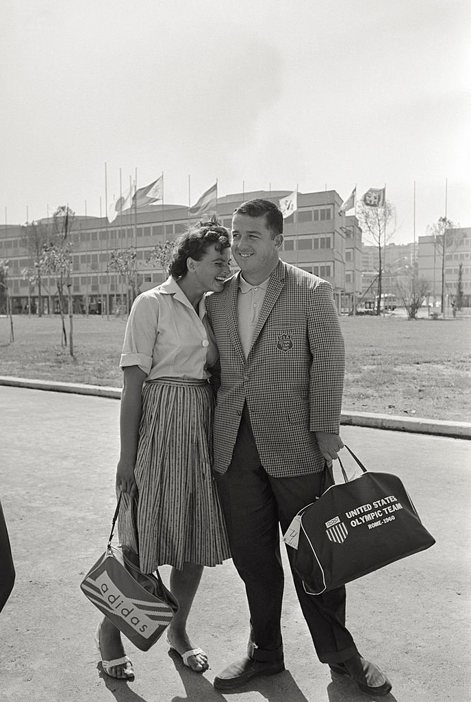 Olga Fikotova and Hal Connolly at the 1960 Olympics.